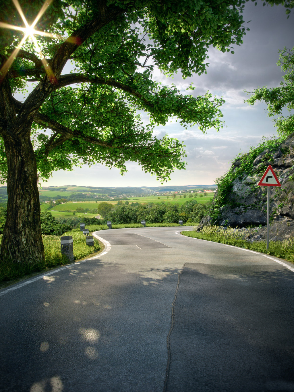 A render of a German Country road by David Gudelius. Rendered with Indigo Renderer.